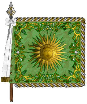 Standard of the 1ère Compagnie Française of the French Gardes du Corps. Created by PMPdeL. N.B.: since there was also a 1ère Compagnie Écossaise which was the senior company of the Gardes du Corps, some authors designate the 1ère Compagnie Française simply as the 2ème Compagnie (overall ranking). Courtesy of Kronoskaf.